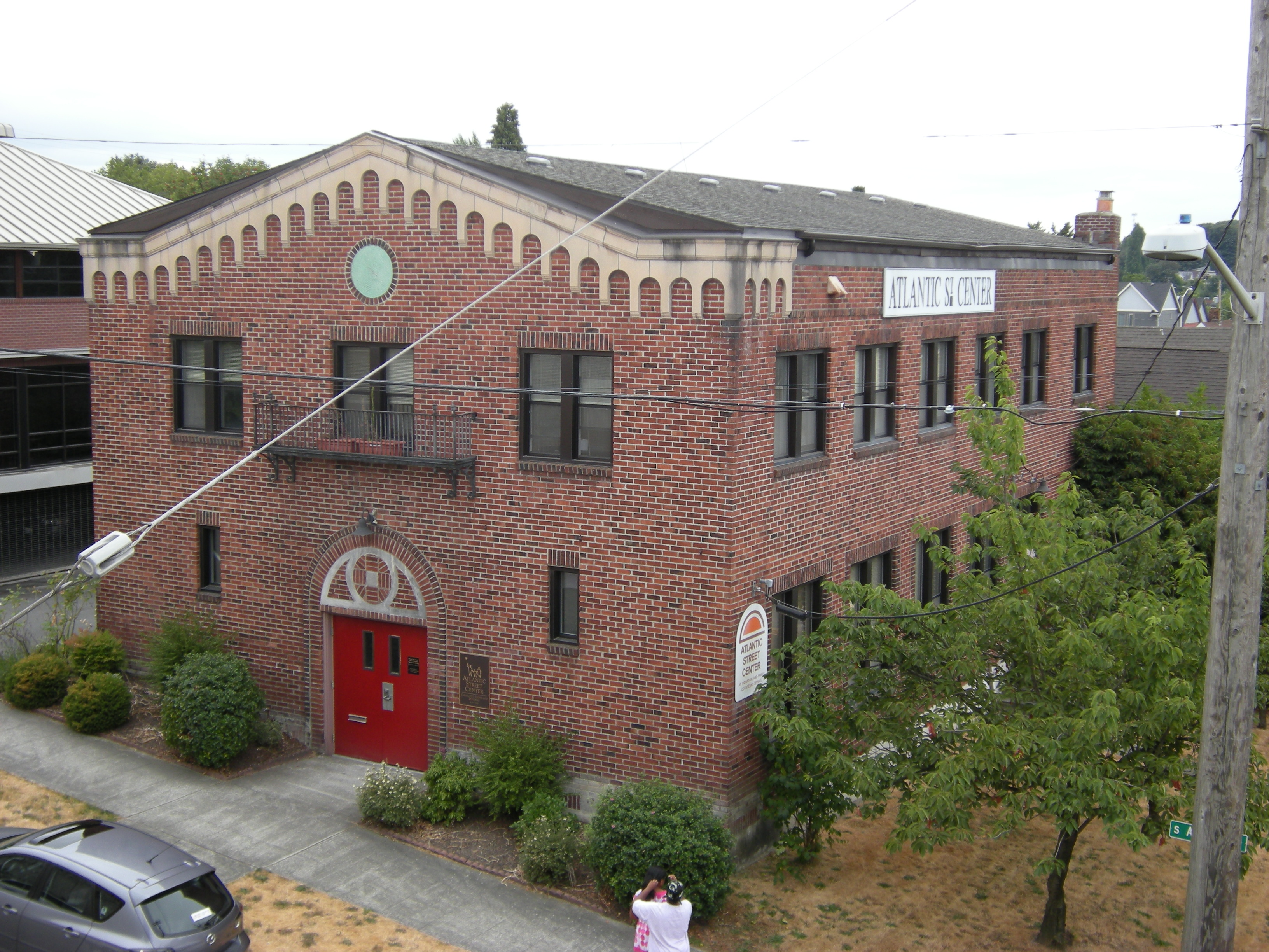 Atlantic Street Center, 2103 S. Atlantic Street, Seattle, Washington, USA. The center began in 1910 as a settlement house for Italian immigrants (the Deaconess Settlement); this building, built as their facility in 1927, is now their administration building.